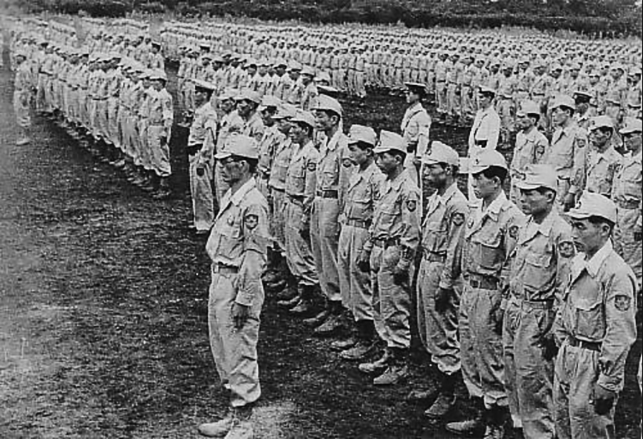 NPR(National Police Reserve) personnel